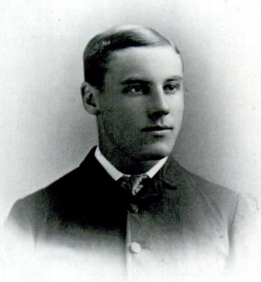 Photograph of Alex Moffat